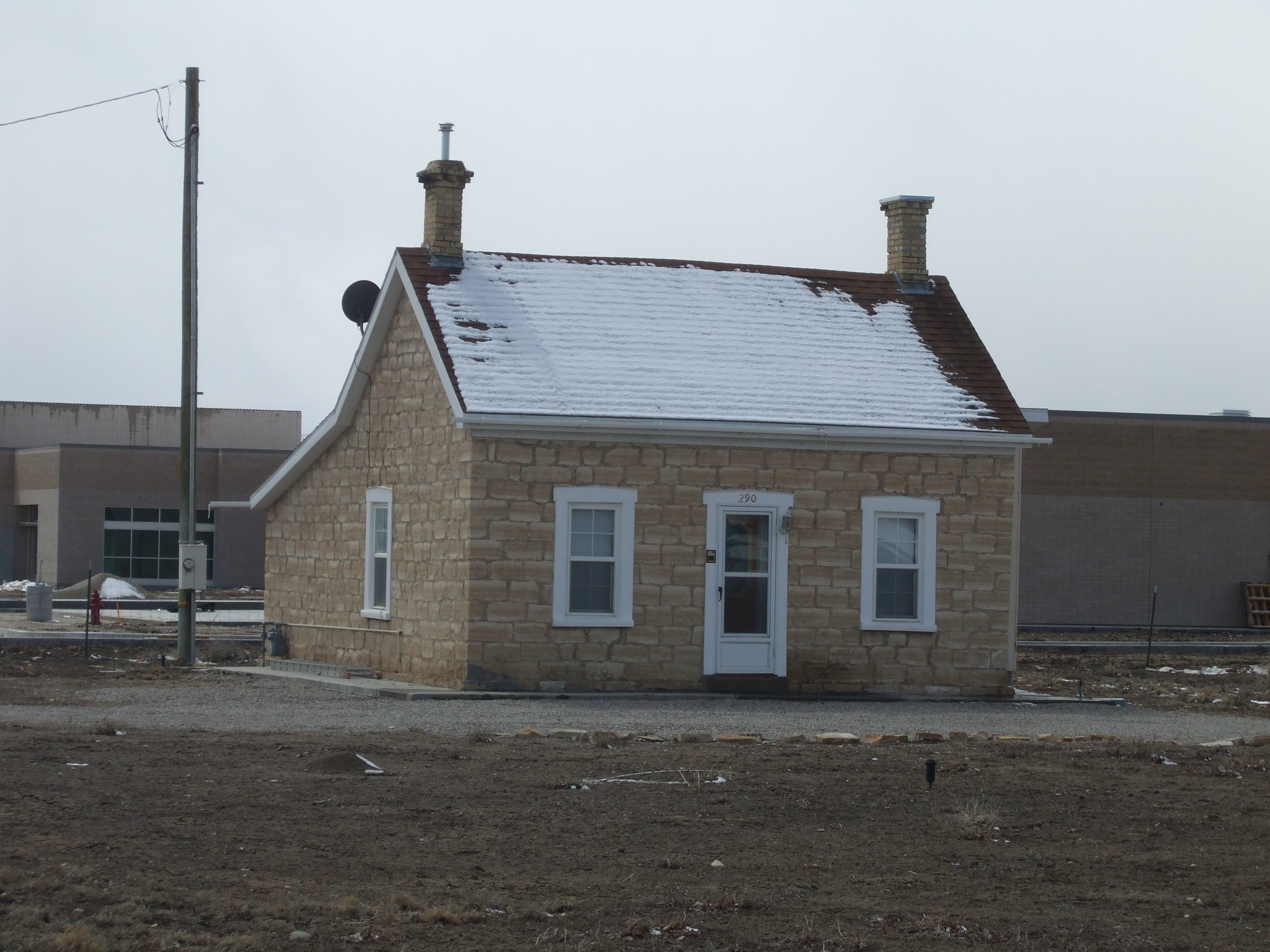 The James and Caroline M. Metcalf House, a historic home in Gunnison, Utah, United States.